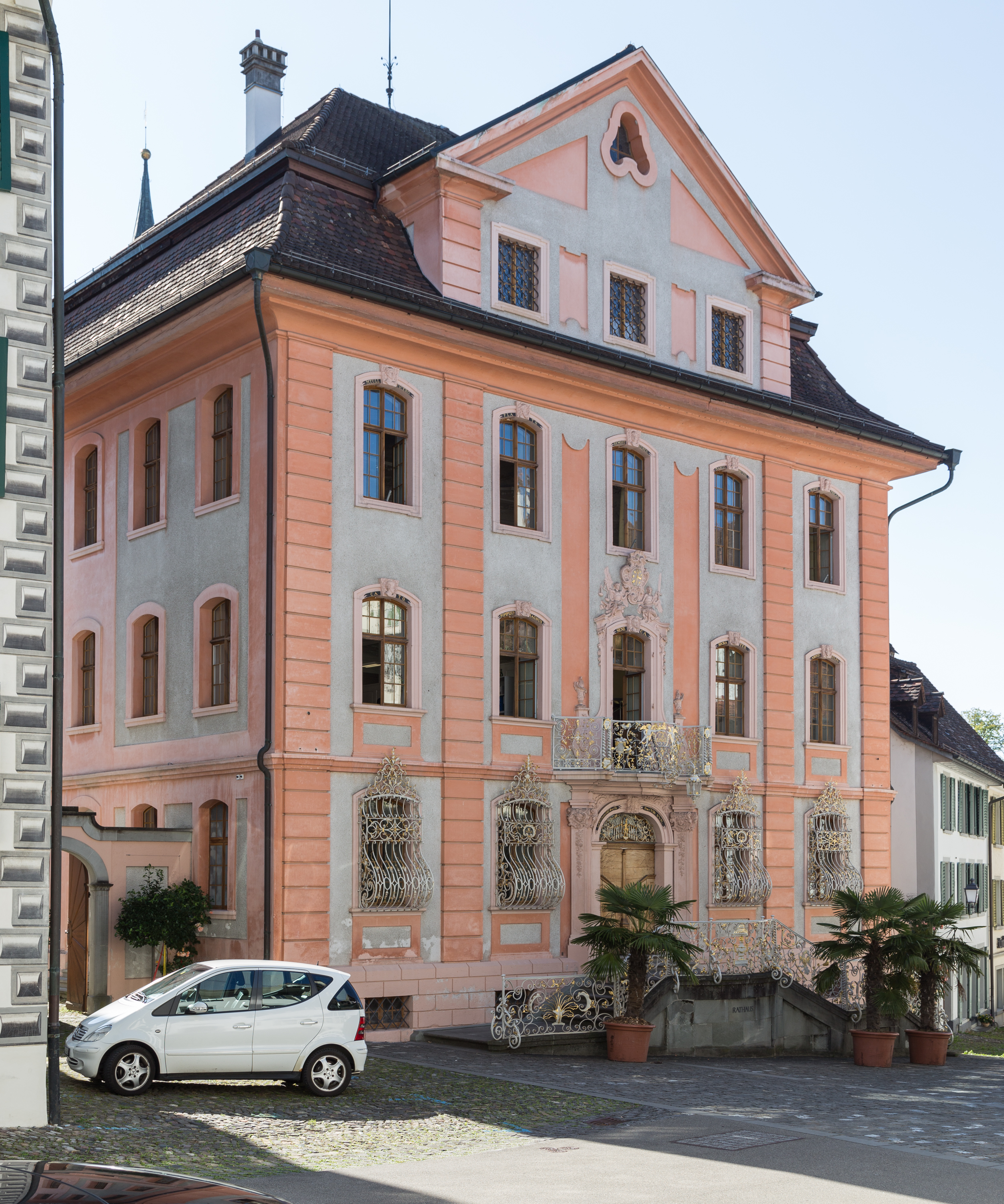 Bischofszell Town Hall